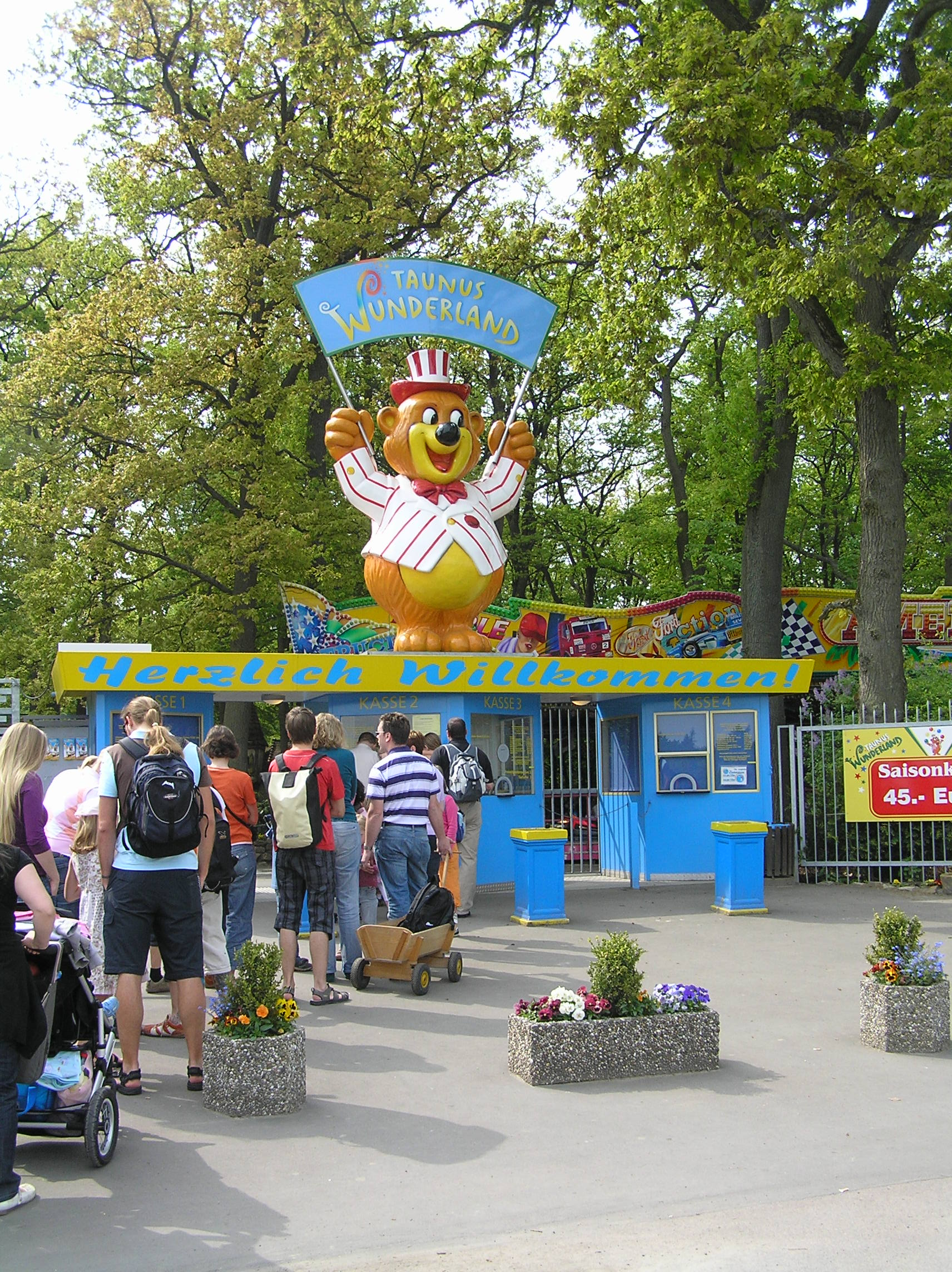 Entrance of the "Taunus-Wunderland" amusement park in Schlangenbad, Hesse, Germany